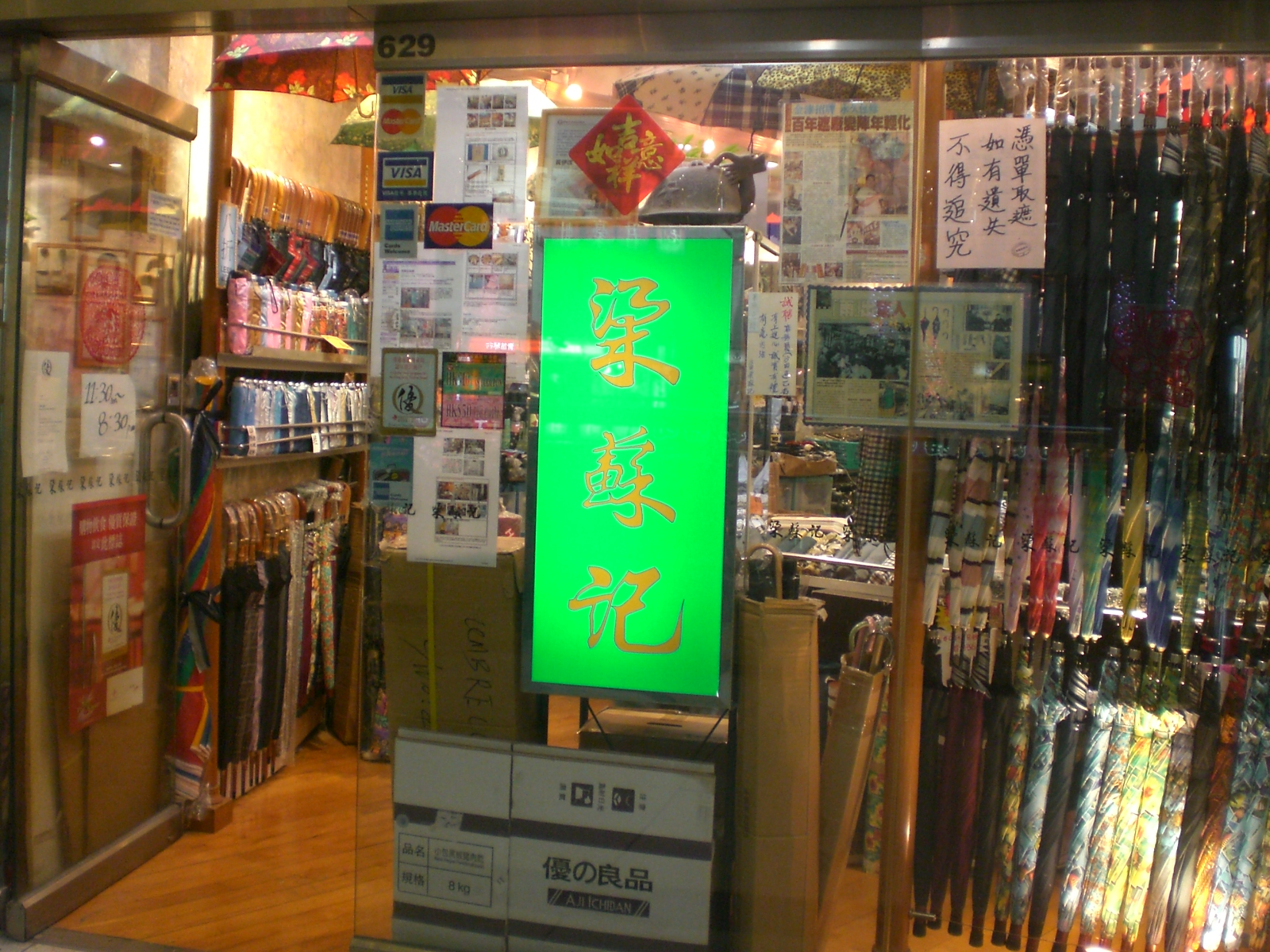 西九龍中心梁蘇記遮廠老字號, Leung So Kee umbrella manufactory outlet, Dragon Centre, Sham Shui Po, Kowloon, Hong Kong.